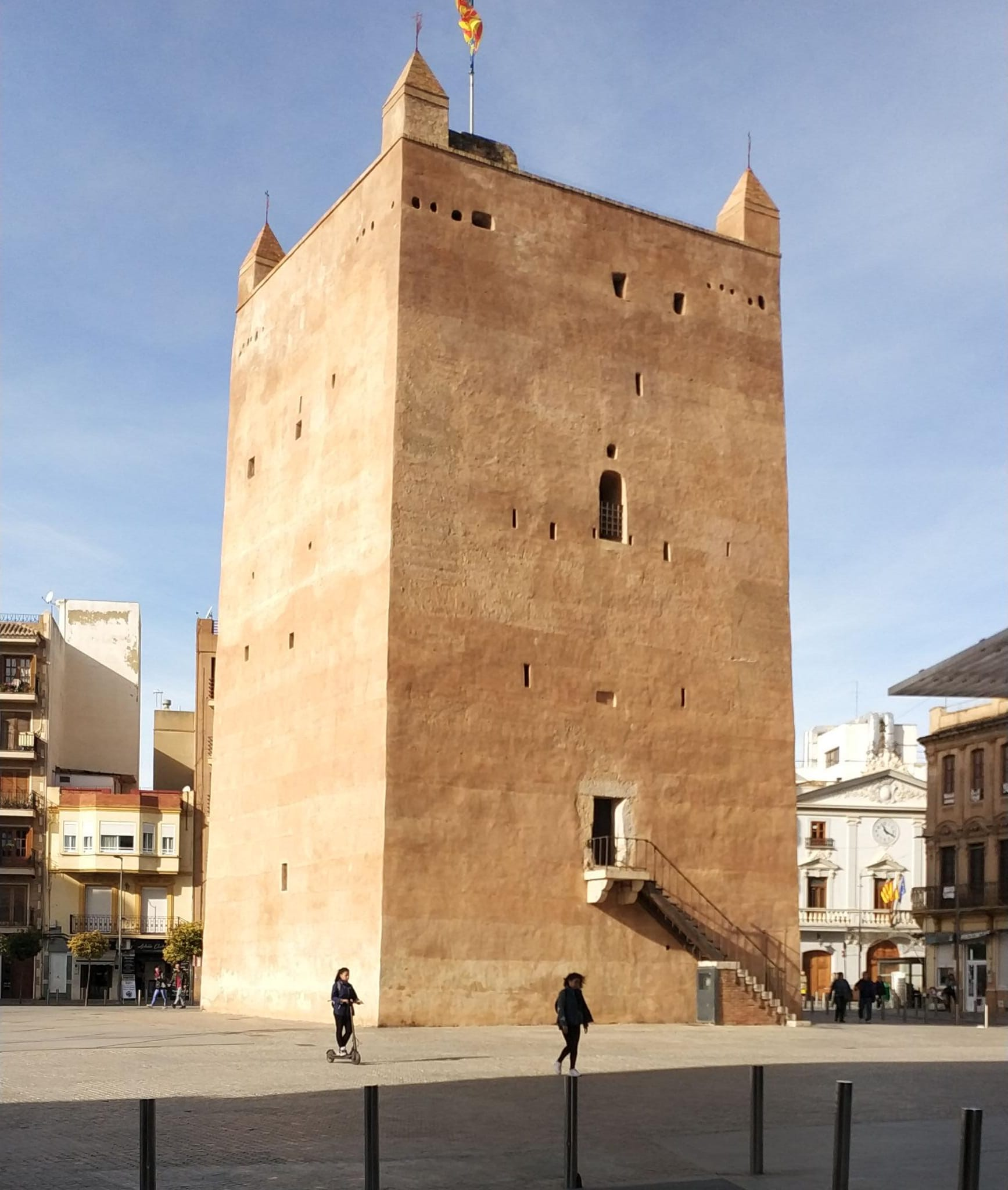 12th century Moorish tower in Torrent, Spain.